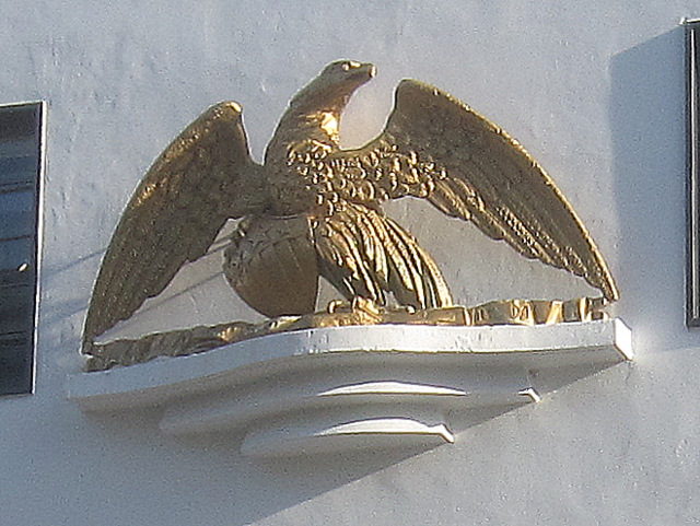 Close up of American Eagle on the former US consulate in Liverpool